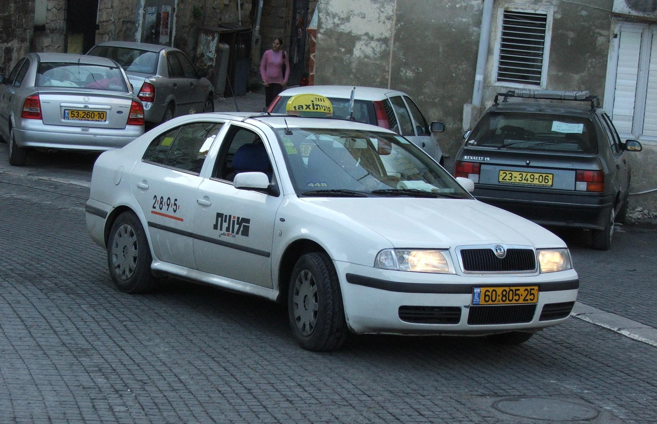 Škoda Octavia as taxi in the streets of Akko, Izrael - February 2008.